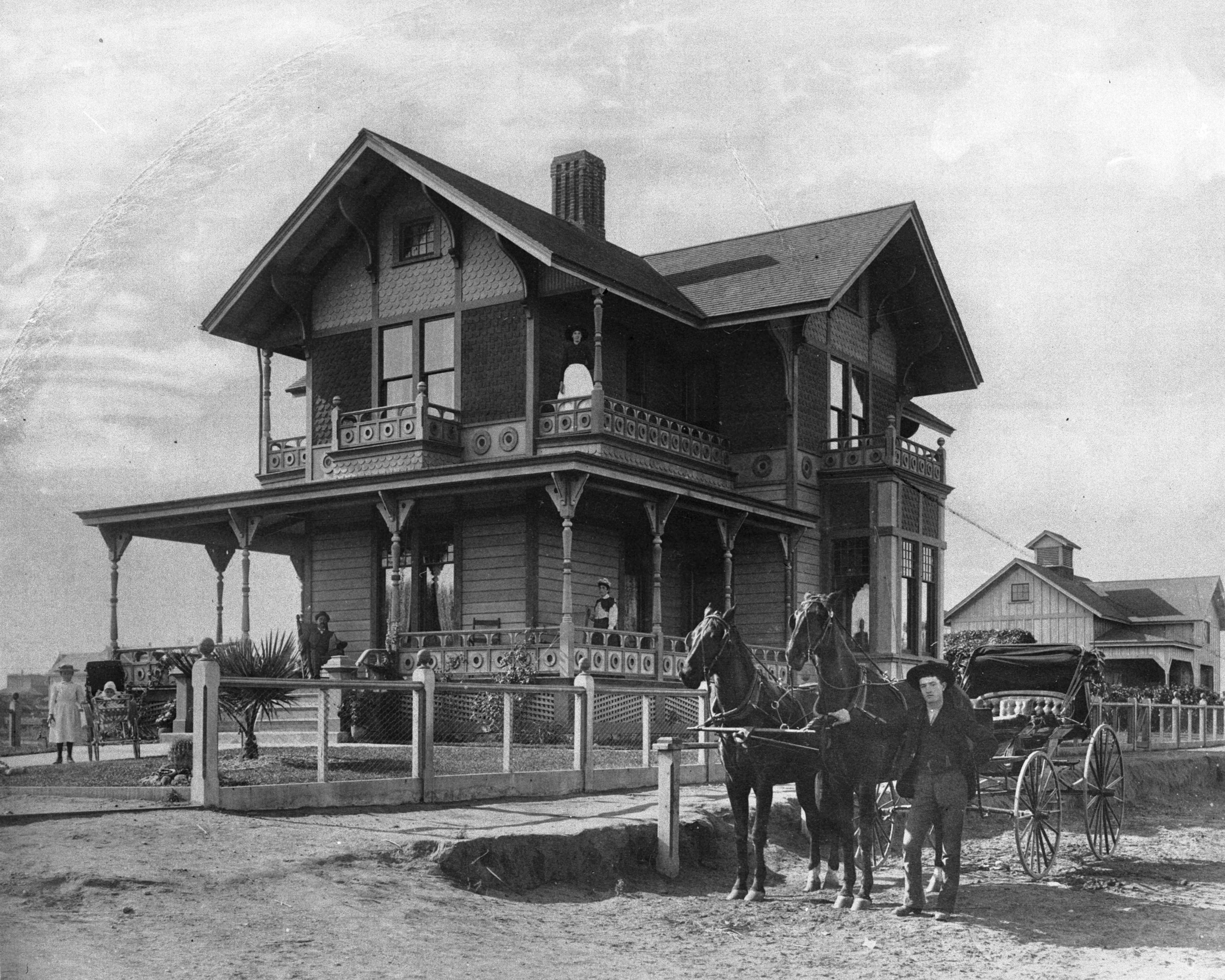 Exterior view of the J. H. Dodson Residence in San Pedro, ca.1895 Photograph of an exterior view of the James H. Dodson Residence in San Pedro, ca.1895. The house is a two-story Victorian style house, with a covered porch and several small balconies. The walls are covered in clapboard siding, and a single brick chimney protrudes from the center of the peaked roof. In the foreground at left is a two-horse carriage attended by a man standing at left. There is a girl standing with a baby carriage at right, and two other people are visible standing on or near the porch. The house is the Los Angeles Historic-Cultural Monument No. 147. Since the time it was built (ca. 1881), the Sepulveda-Dodson residence has been moved several times and changed a number of owners. The house has been the Reed family home since 1954 and is still with the family (as of October 2008). In the beginning of 1920s, the Fox Gabrillo Theatre was built on the original site of the Dodson House. The theatre was demolished in 1958.